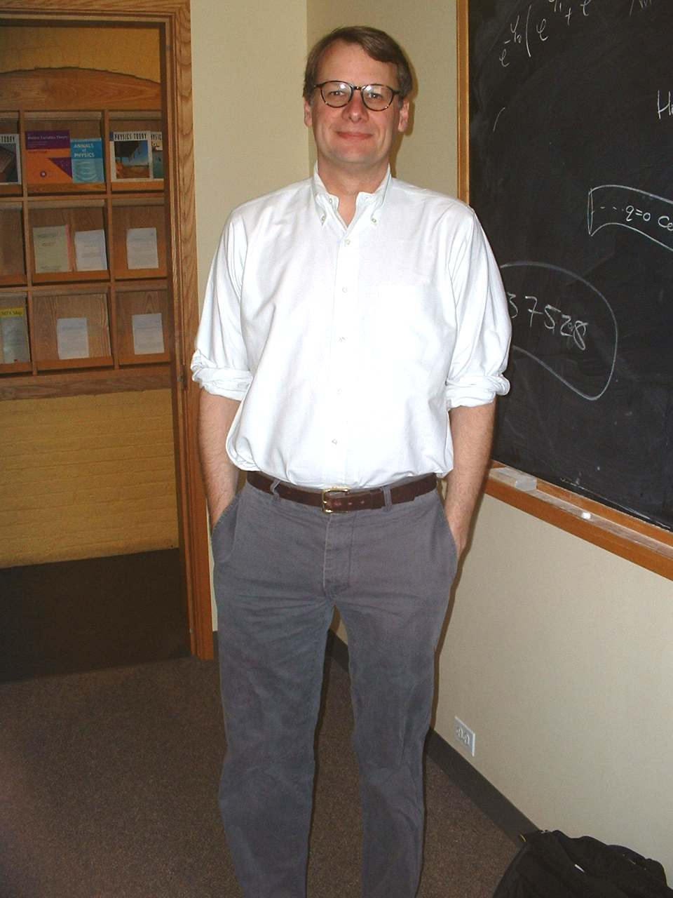 Lyman Page at Harvard University